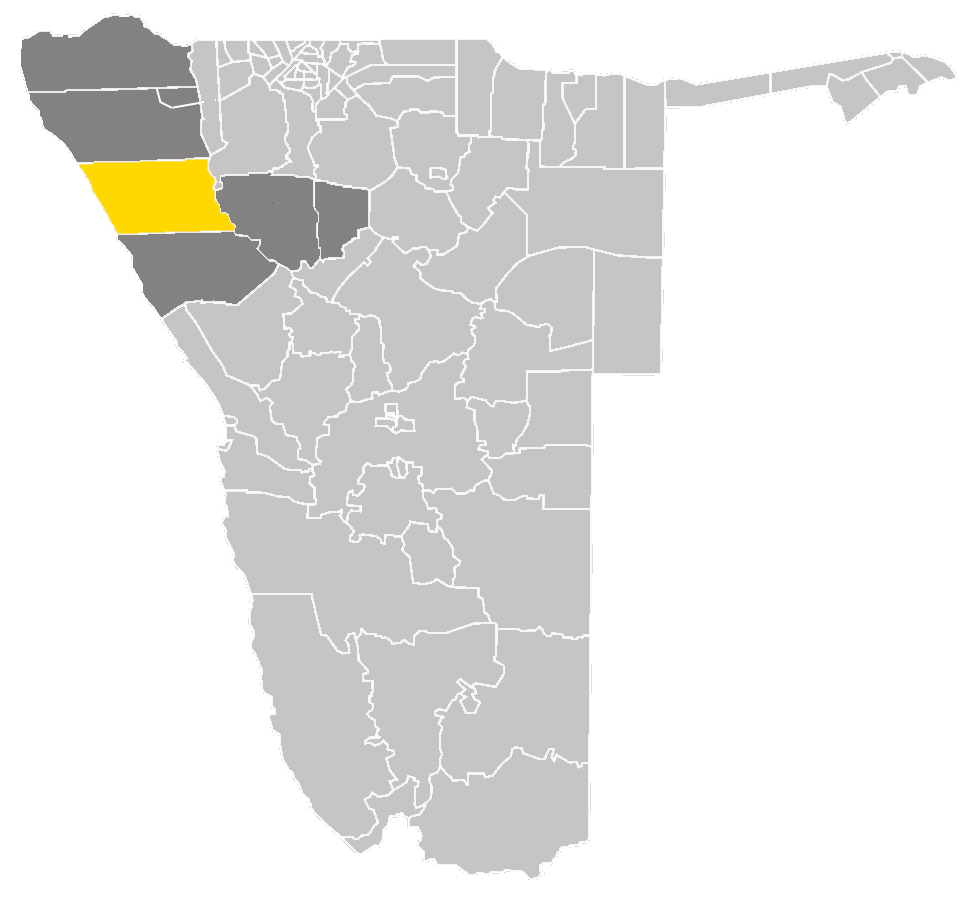 map of the Sesfontein constituency within the Kunene region, Namibia